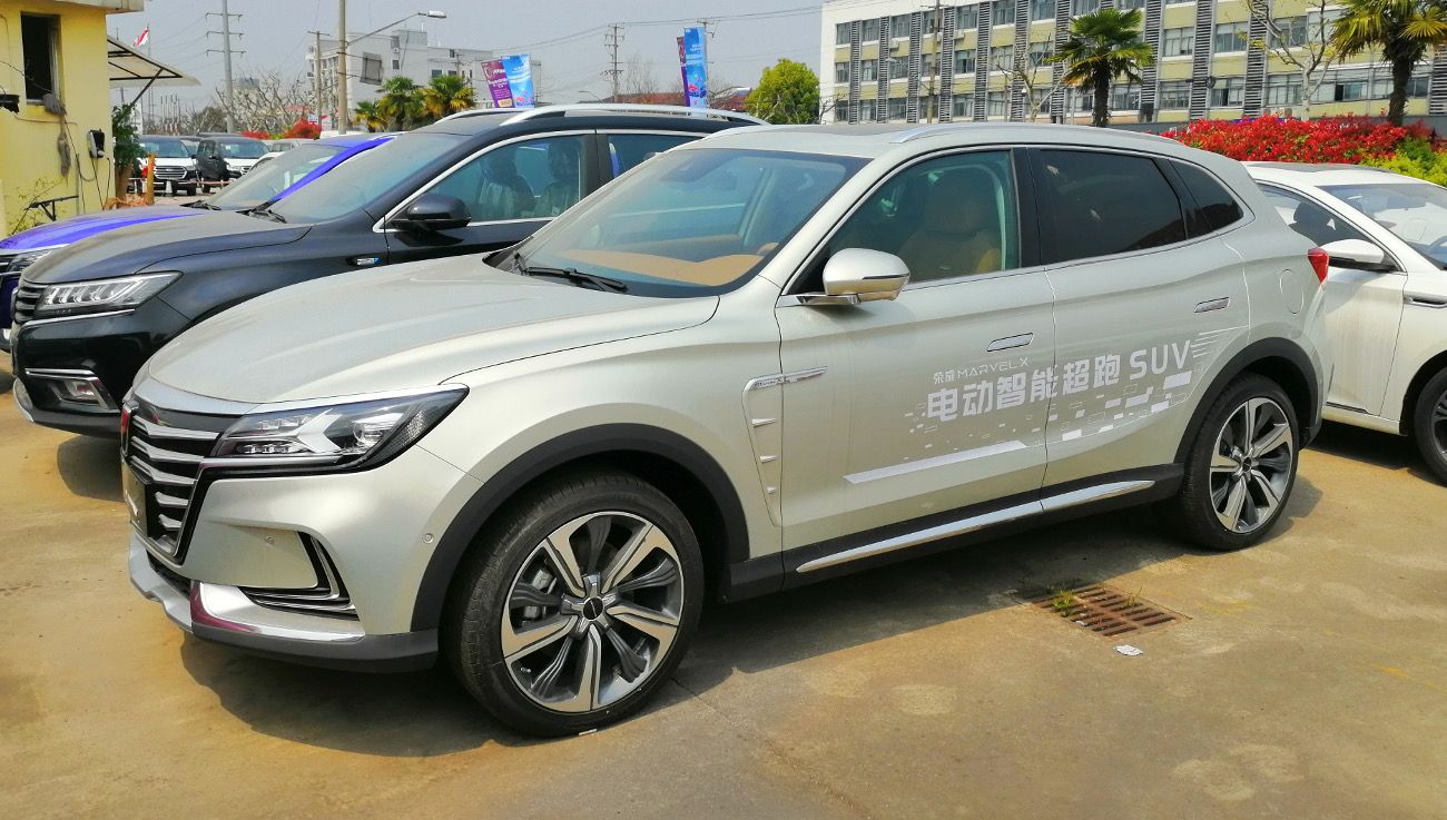 Roewe Marvel X photographed in Shanghai, China.